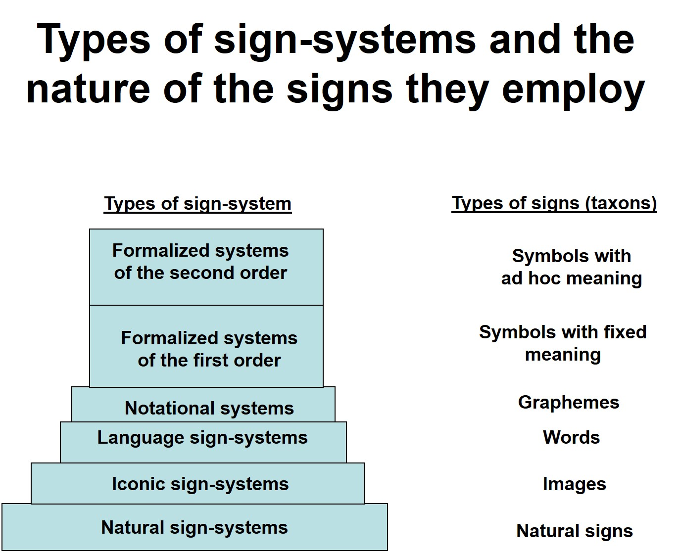 Slide